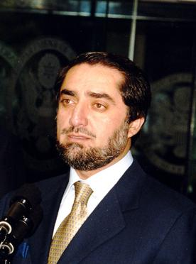 Dr. Abdullah, July 24, 2002, Washington, DC.